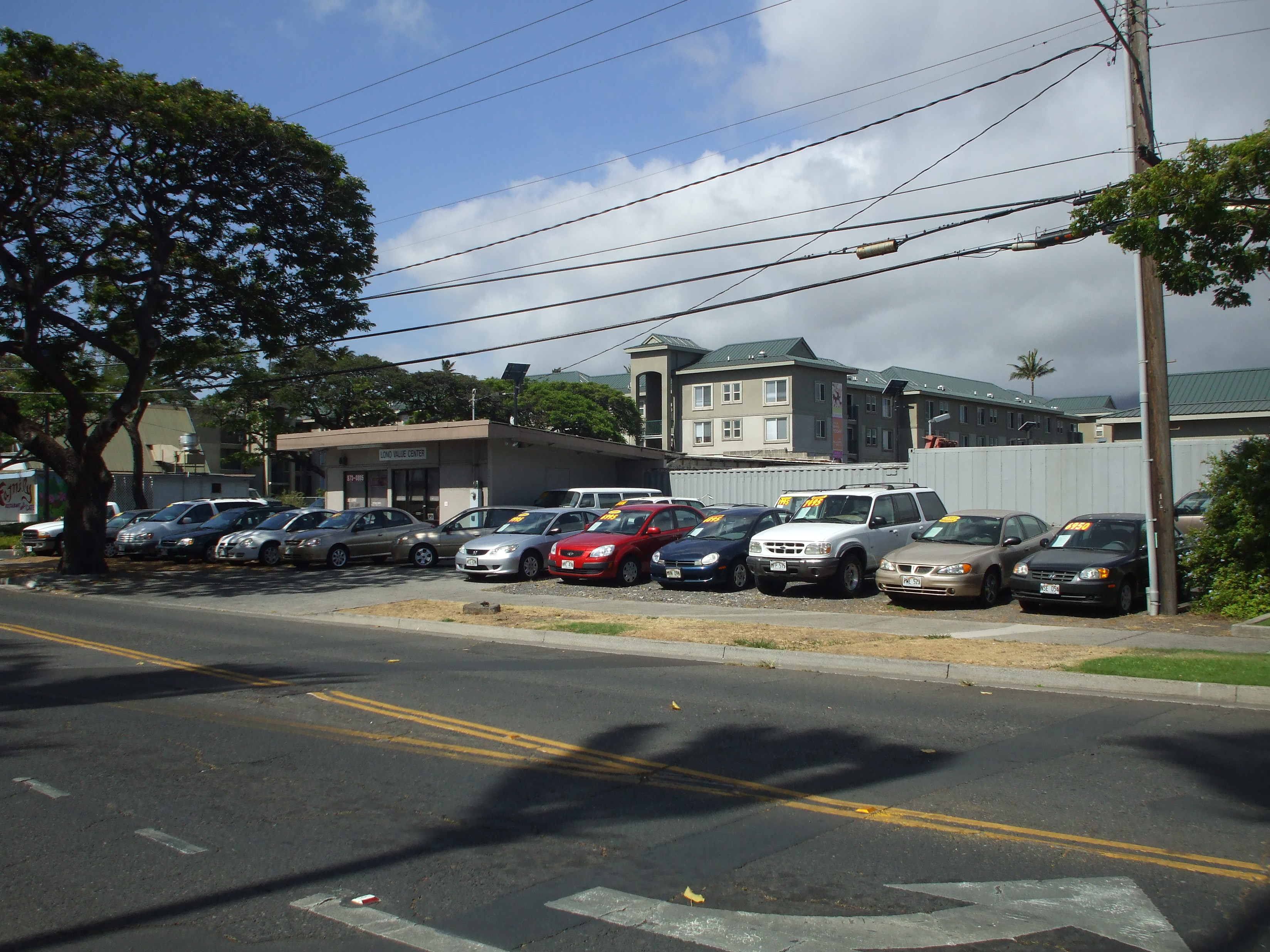 Used Car Lot on Maui.